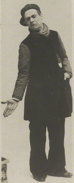 A photo of the music hall comedian Gus Elen. The author is unknown, but the image was published by The Philco Publishing Co. in the 1900s who ceased trading in 1934. The copyright was more than likely bequeathed to the publishers. A 70-year period has now lapsed from the cease of business date of the publishers and of the subject who died in 1940, therefore this image falls into the public domain.